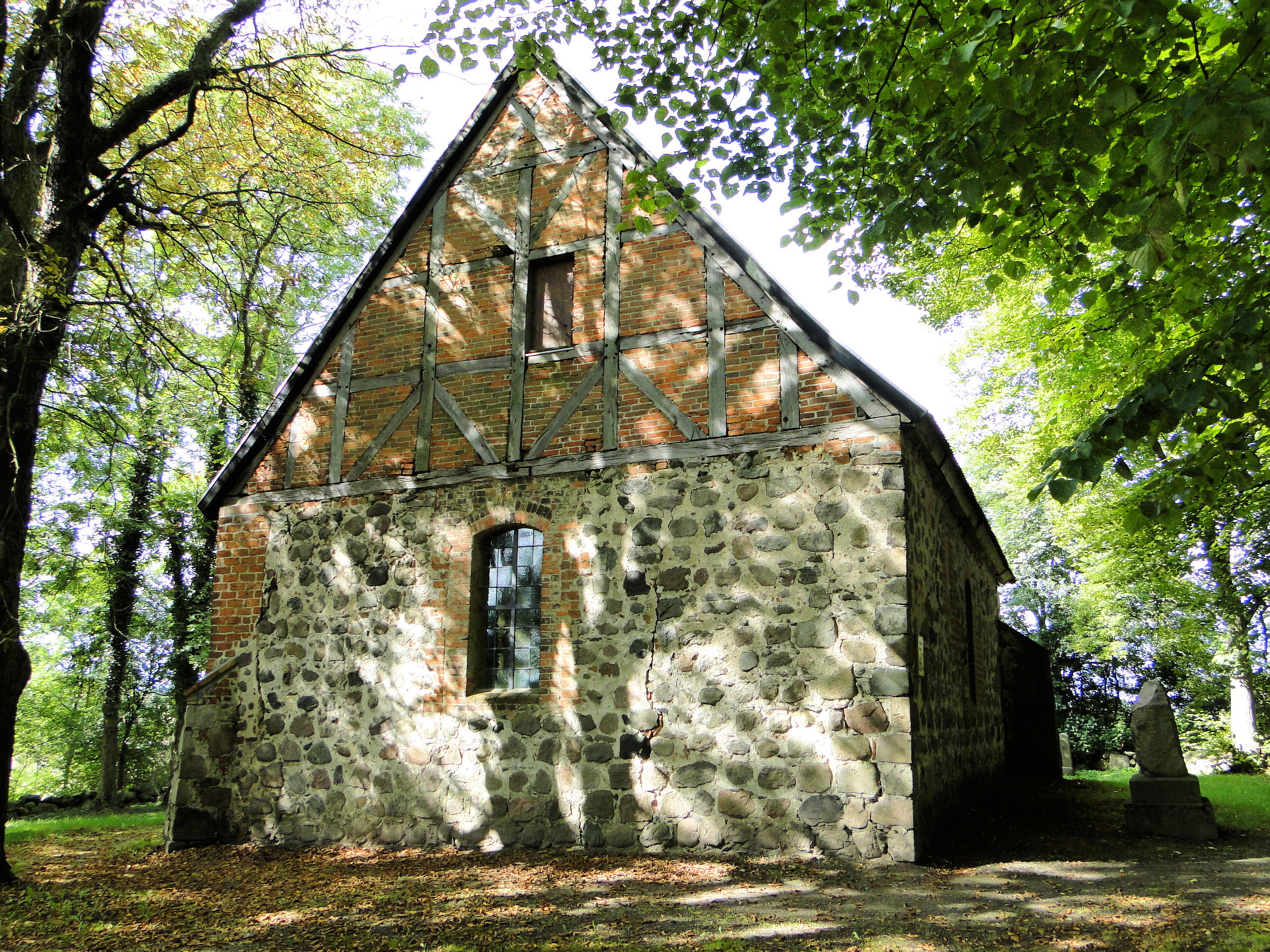 Church in Kraase, district Müritz, Mecklenburg-Vorpommern, Germany